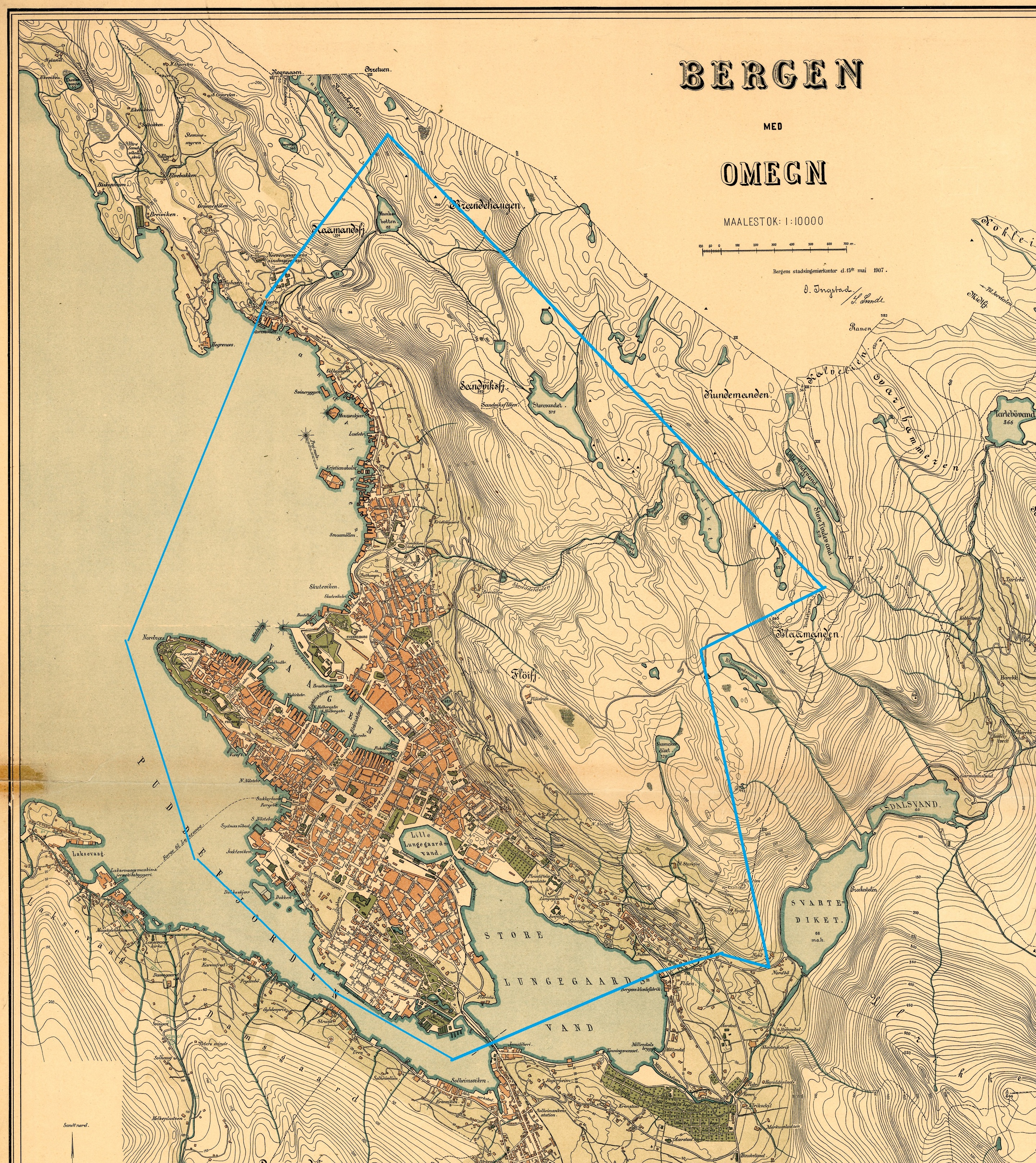 Jurisdiction of Bergen city by 1276 indicated on map from 1907.